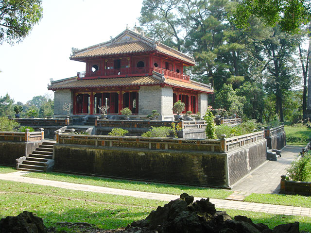 Minh Mang mausoleum was built 12km from Hue in four years (1840-1843). It took ten thousand soldiers and artisans to complete.